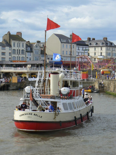 The Yorkshire Belle, Bridlington, East Riding of Yorkshire, England.The Yorkshire Belle returning to harbour after a trip around Bridlington Bay.